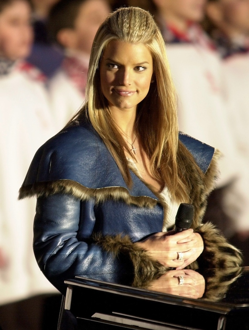 Andrew Lloyd Weber and singers Josie Walker and Jessica Simpson perform at the 54th Presidential Inaugural Opening Celebration held at the Lincoln Memorial, Washington, D.C., Jan. 18, 2001.